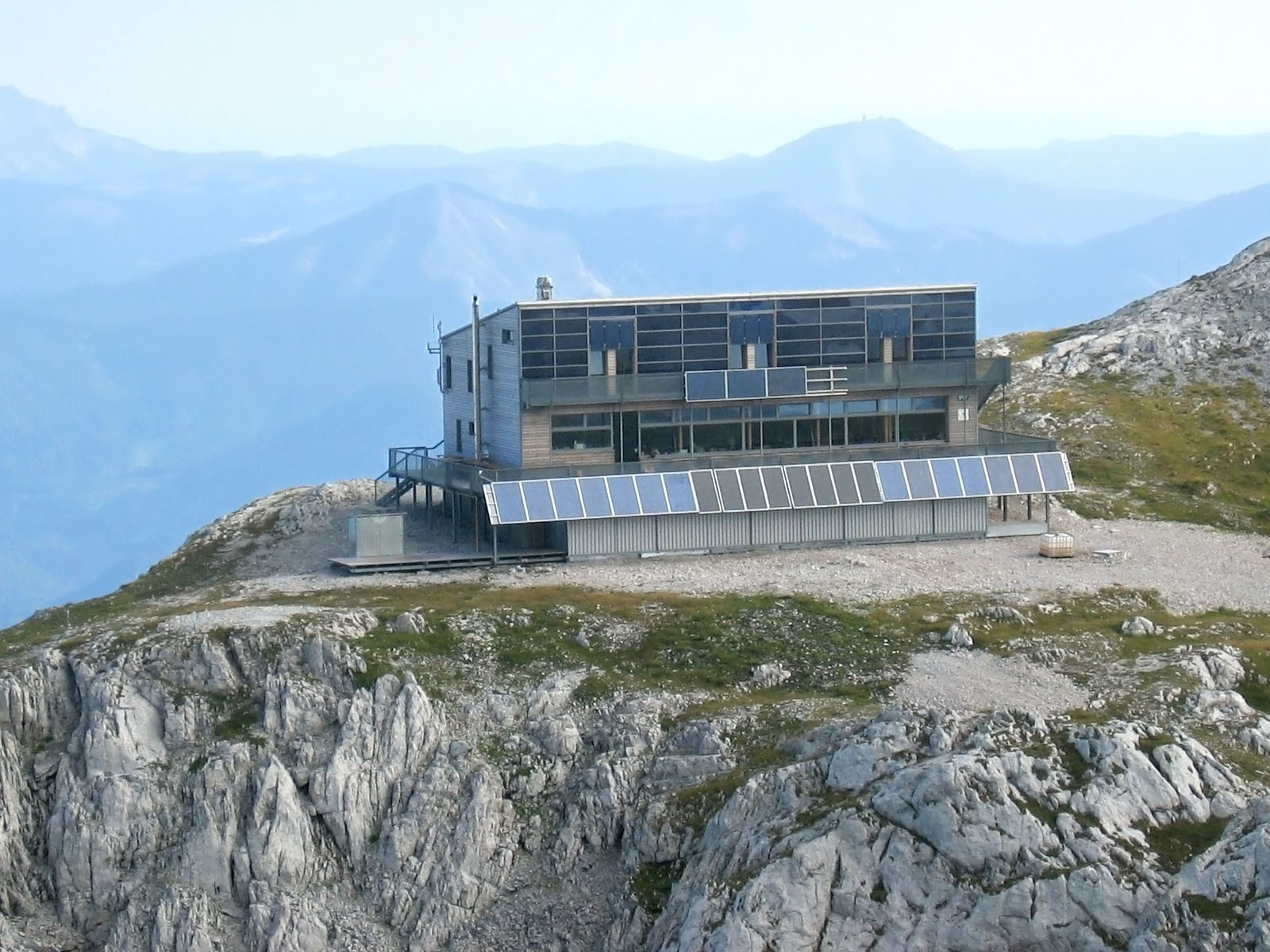 Schiestlhaus, a modern mountain hut near the peak of the Hochschwab (Styria, Austria). The Schiestlhaus is the first mountain hut in the Alps that was built as a passive house, i.e., complying to a rigourous standard of energy saving and protection of the environment. Its unusual architecture was widely discussed.